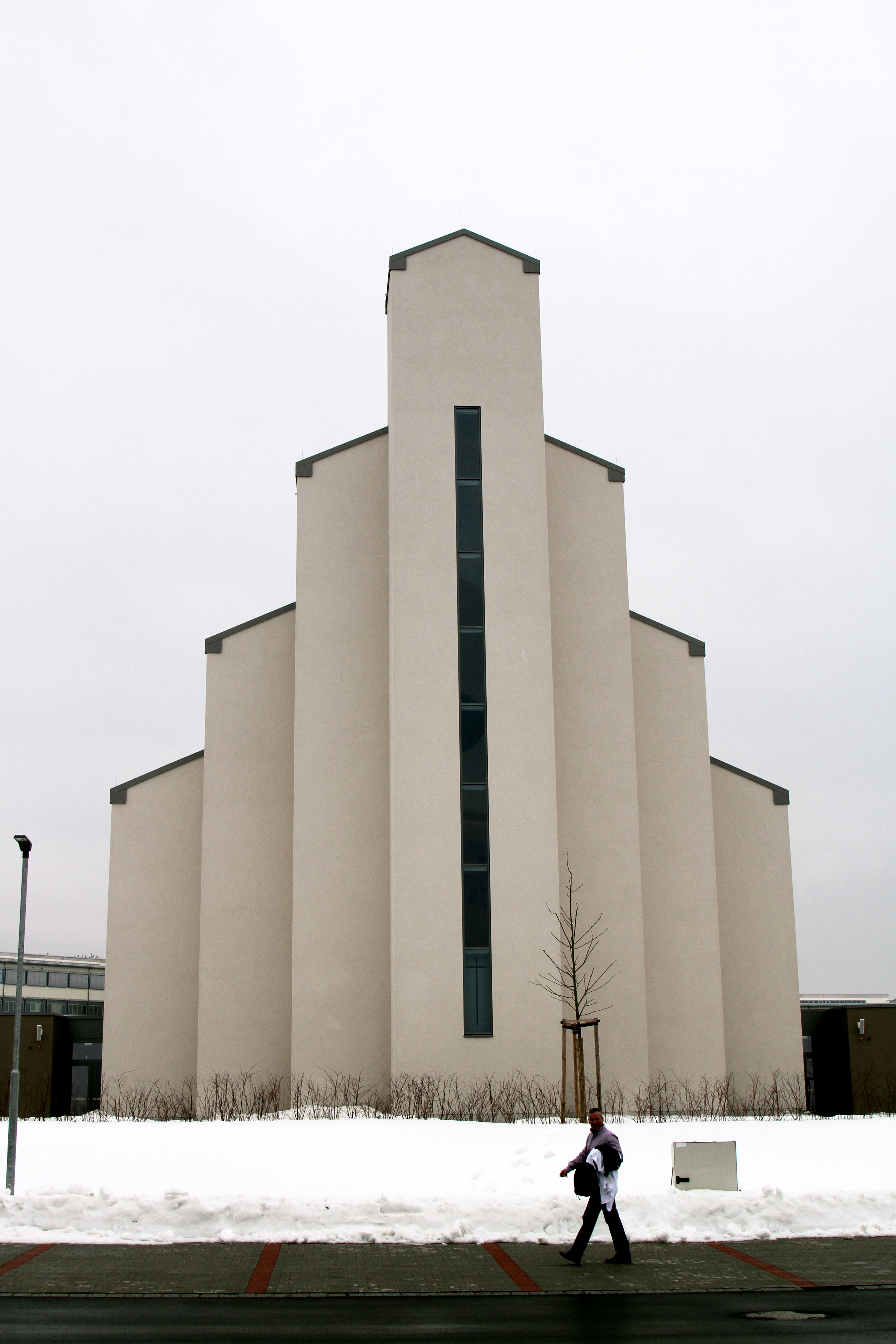 Netzaberg Chapel: On the 74th anniversary of the sinking of the Dorchester during World War II when the heroic actions of four Army chaplains are commemorated, U.S. Army Garrison Bavaria held a ribbon-cutting ceremony to dedicate the first chapel built for Soldiers in Europe in more than 17 years. The Netzaberg Chapel, built for the Grafenwoehr, Germany, military community will be a power projection platform for faith and resiliency, said Col. Lance Varney, USAG Bavaria commander, during his opening remarks Feb. 3. Before Col. Matthew Tyler, commander of Europe District, U.S. Army Corps of Engineers, presents Varney with the ceremonial key for the, he said, “As a Soldier, I recognize the importance of maintaining spiritual health and focus. It’s part of our readiness and resilience. It’s critical to the well-being of our personnel and community.” (U.S. Army Corps of Engineers photo by Lori Egan)